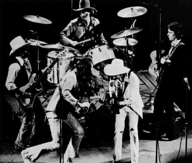 Photo of The Dirt Band from a trade ad.